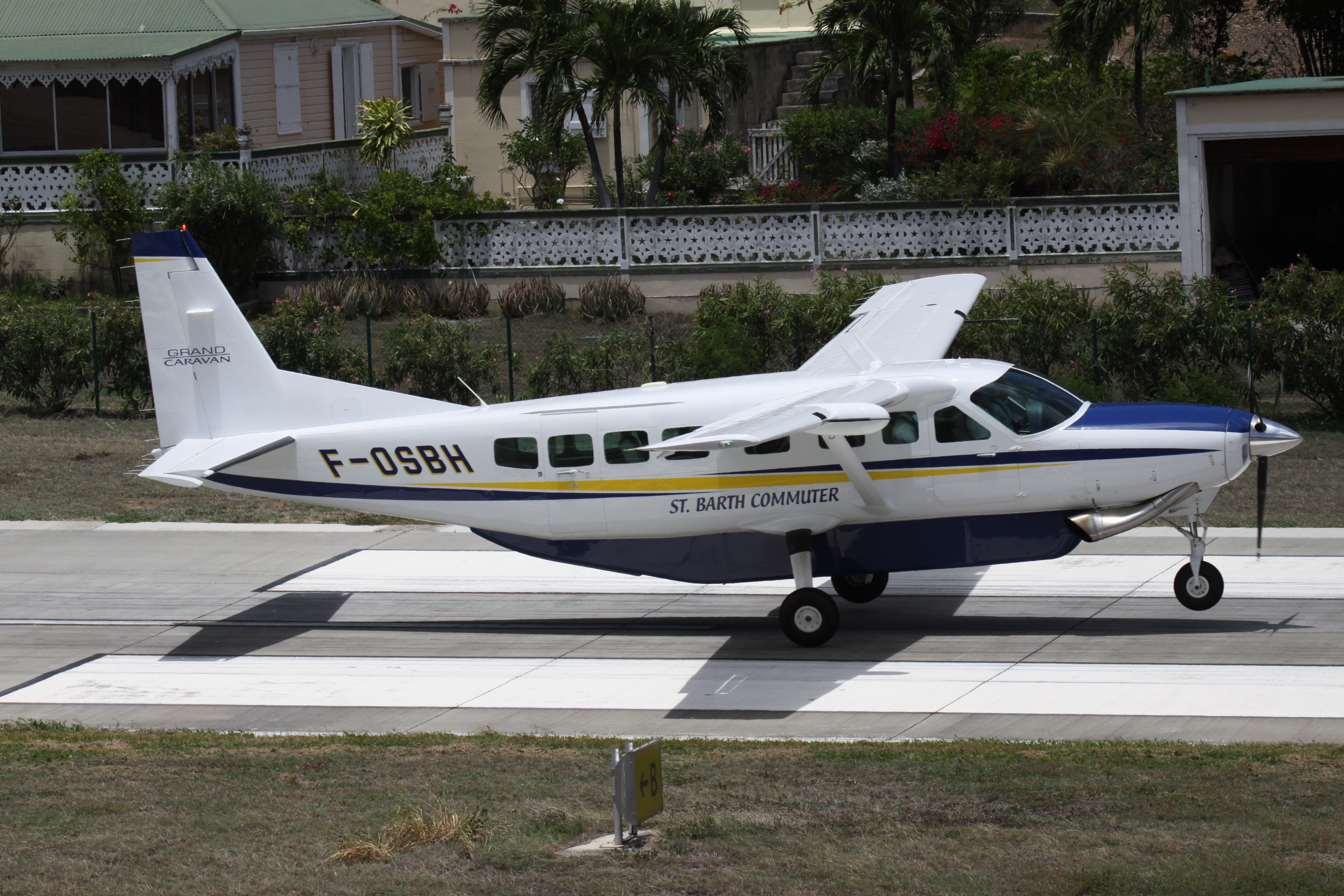 St Barth Commuter C208B F-OSBH